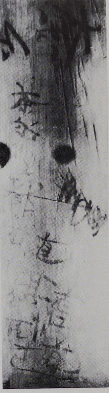 Graffiti a poem on wood tumber of The five-storey pagoda in Horyuji, late ACD7th century